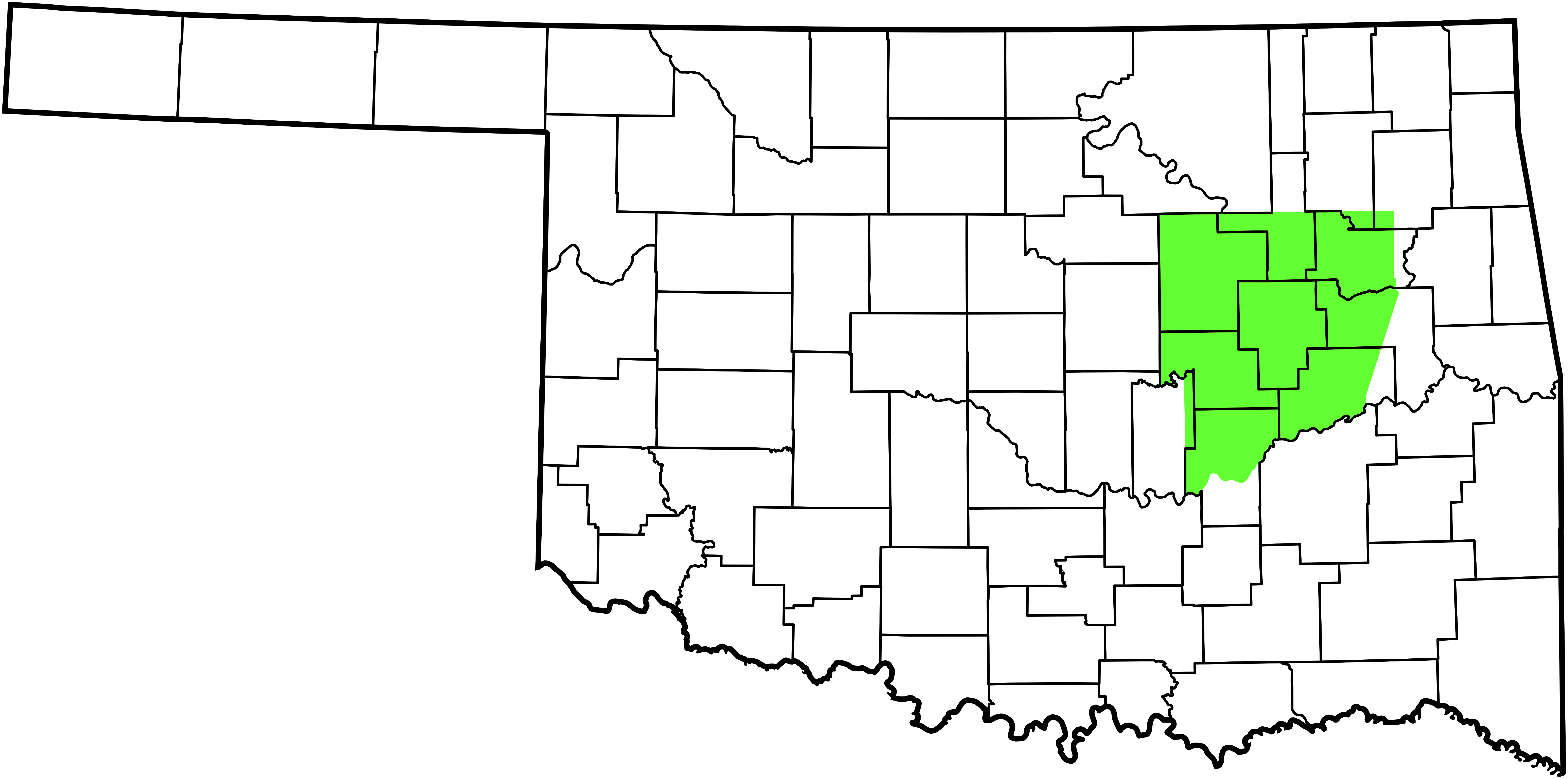 Map of the Muscogee (Creek) Nation, based on map at